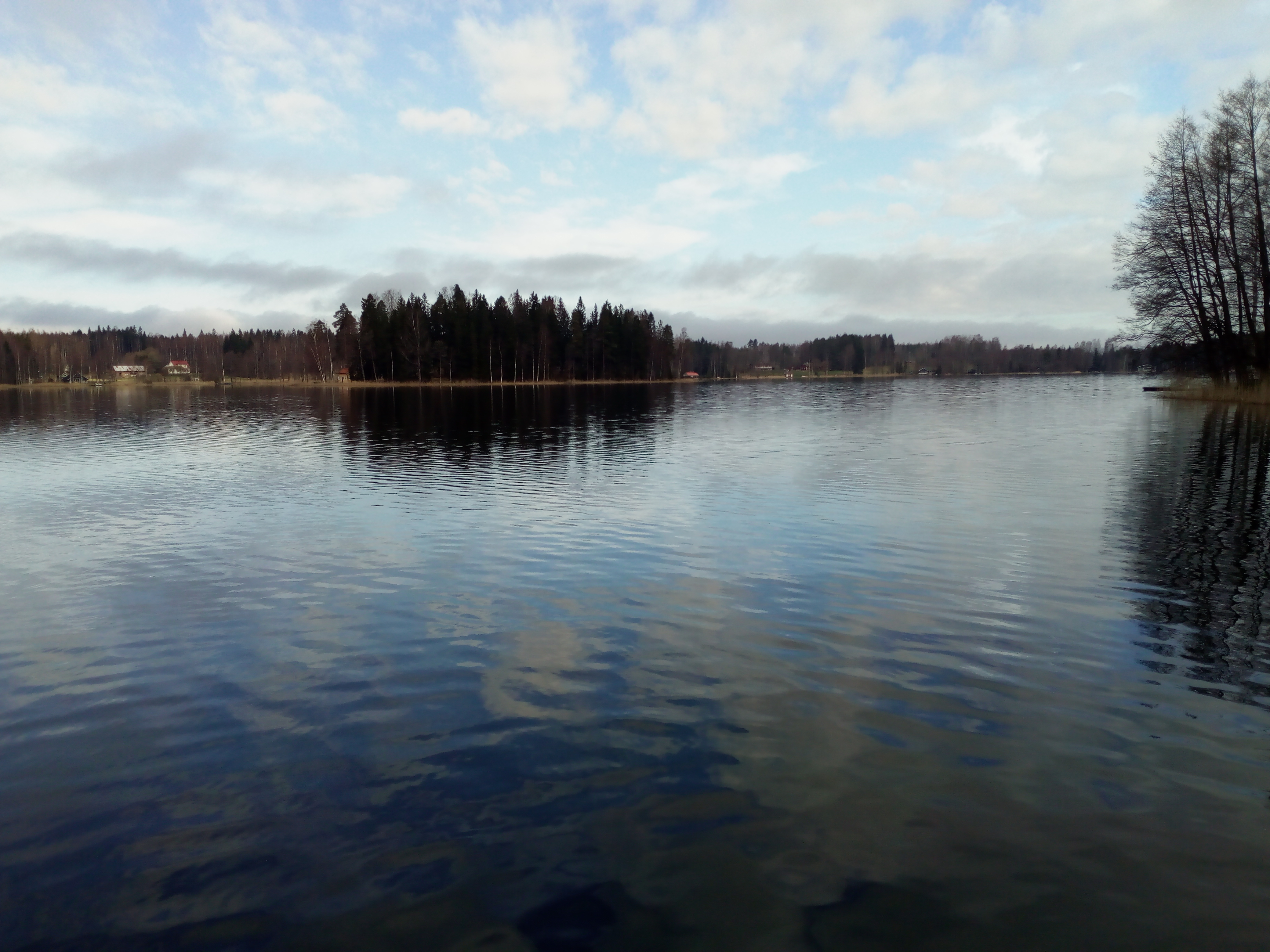 Lake Naarjärvi in Salo, Finland. A view to the northern part of the lake with an island.